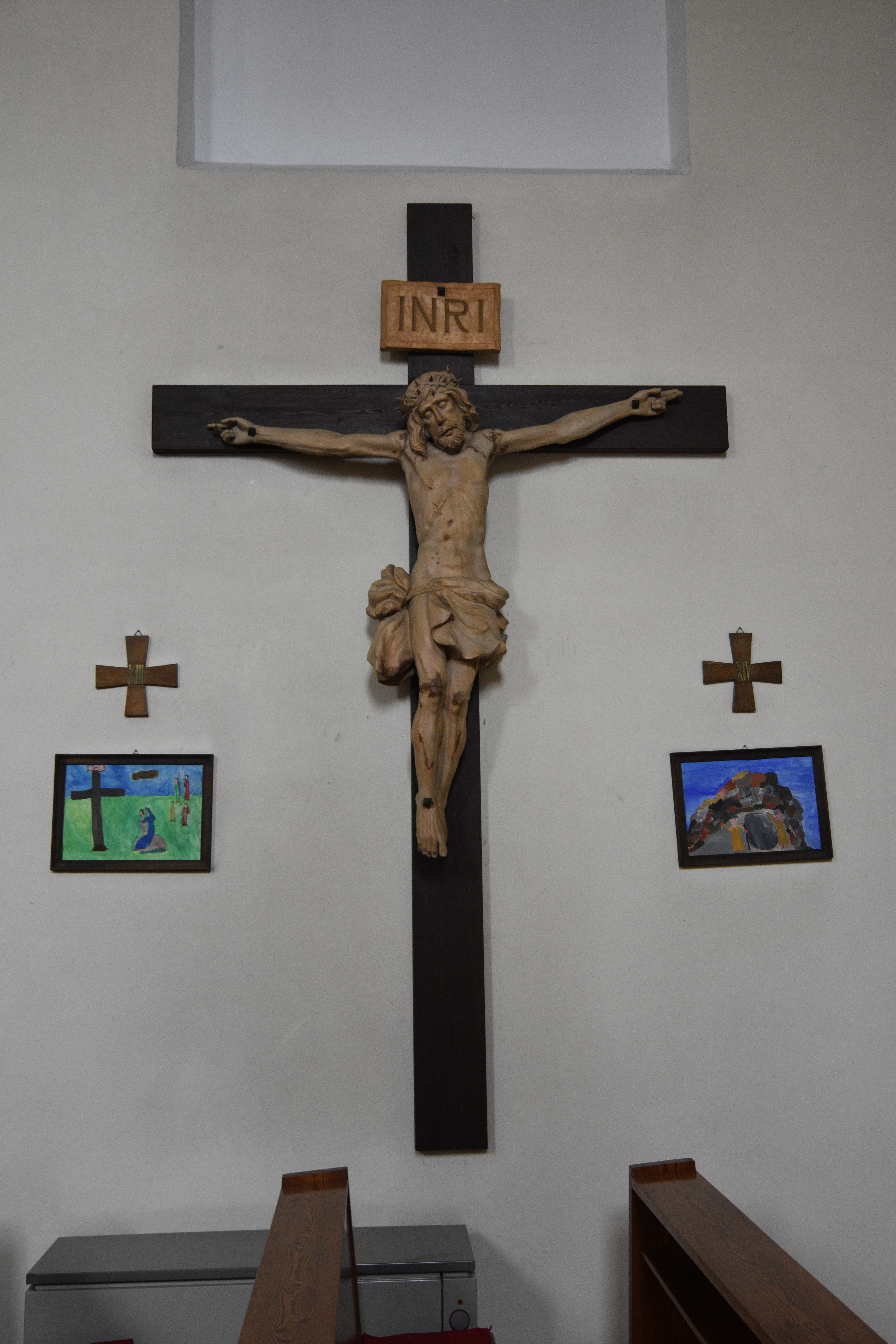 Church Bocksdorf - Interior